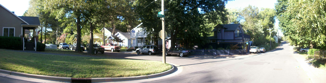 North Charlotte's Neighborhood in Mecklenburg Mill Village Houses